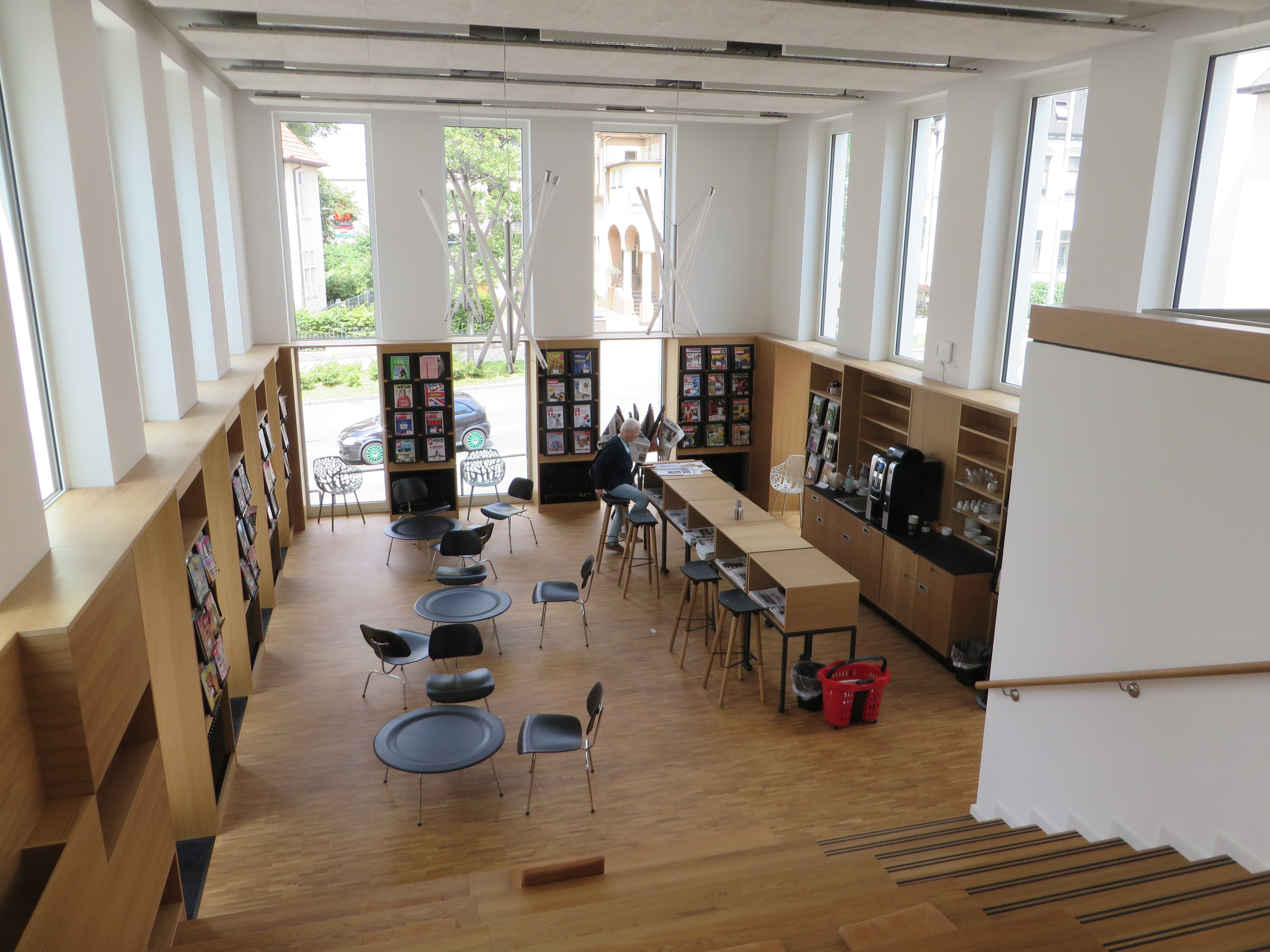 library in Witten, Germany